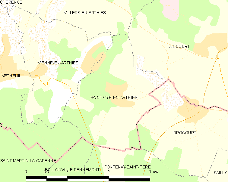 Map of French municipality Saint-Cyr-en-Arthies